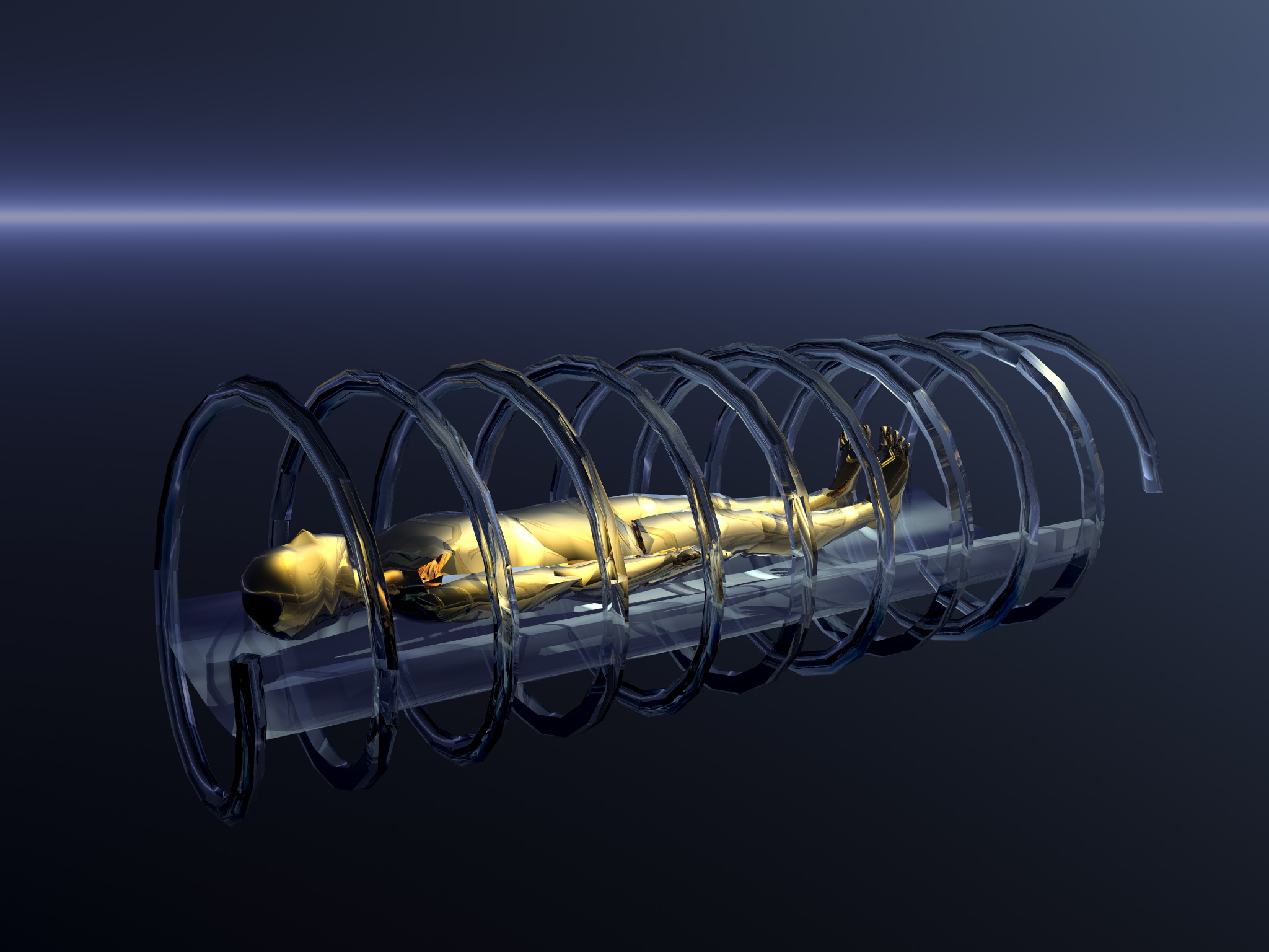 Spiral CT depiction. Rotation of image aquisition apparatus (Tube and sensor array) around the patient. en Wikipedia, Portal:Medicine Selected picture